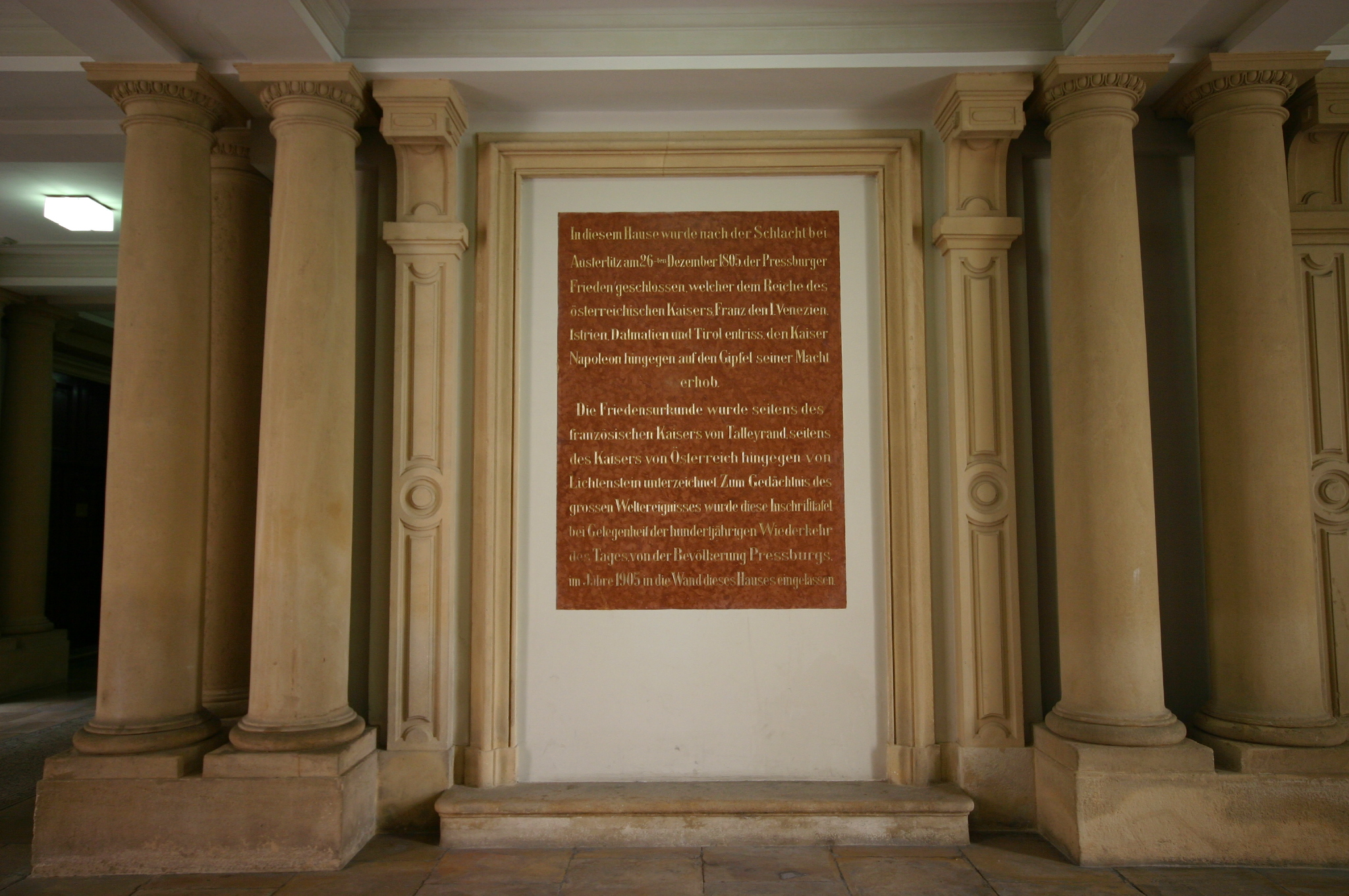 Memorial plaque of the peace treaty of Pressburg, signed by the French Empire and the Austrian Empire on the 26th december 1805 in the in the Primas Palace in Pressburg (today Bratislava, Slovakia).